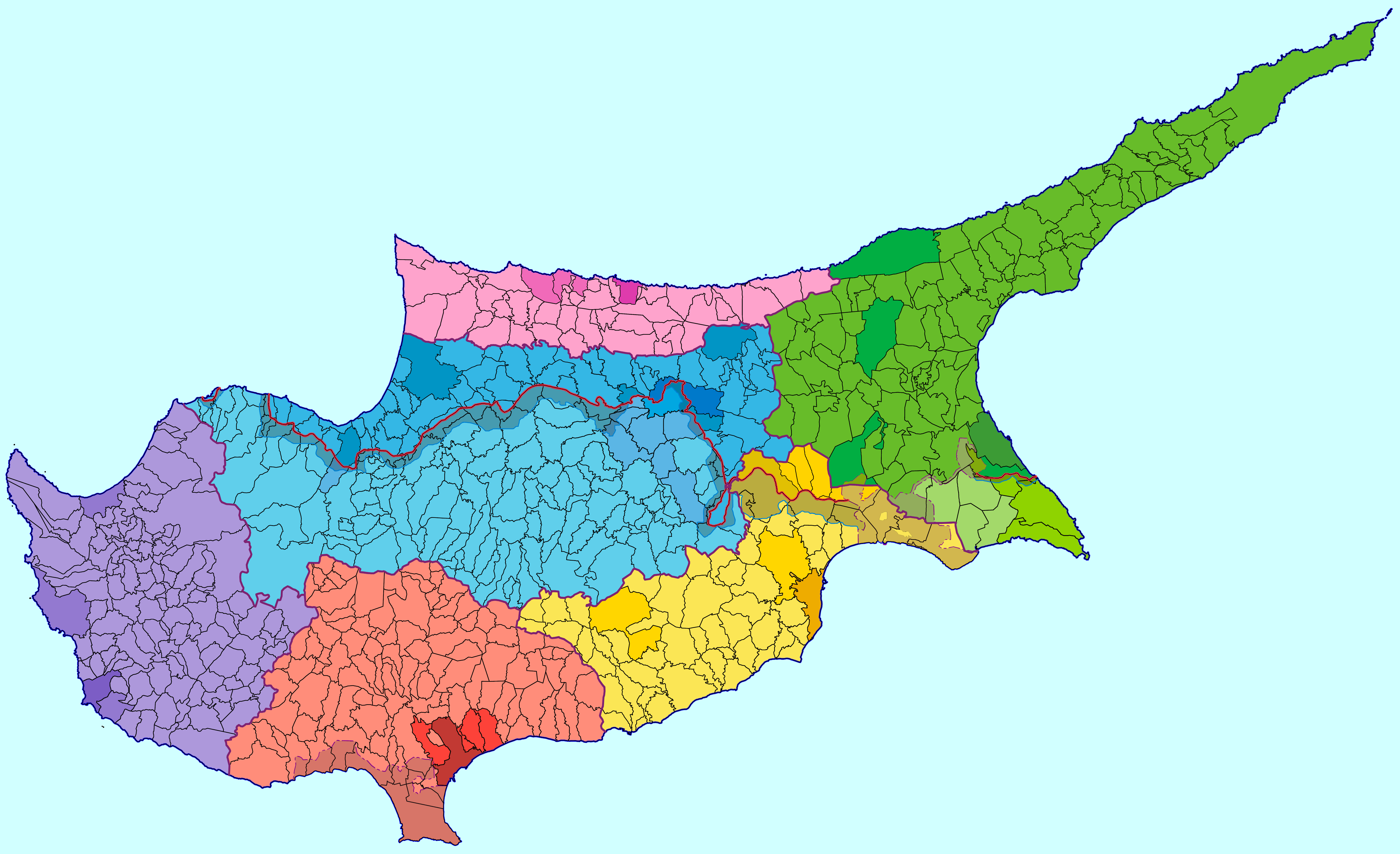 Administrative map of Cyprus showing districts.